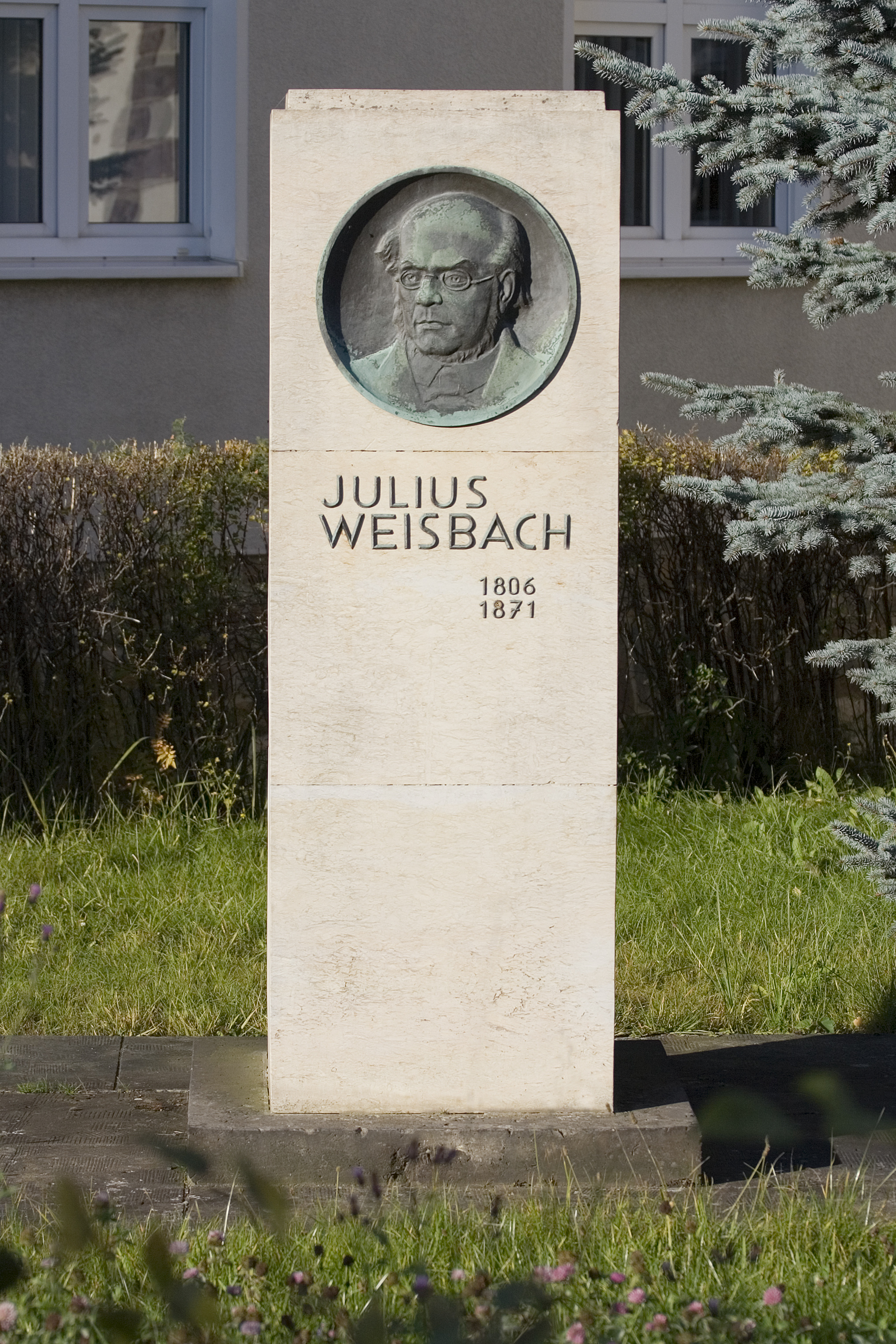 Freiberg (Saxony), monument to Julius Weisbach